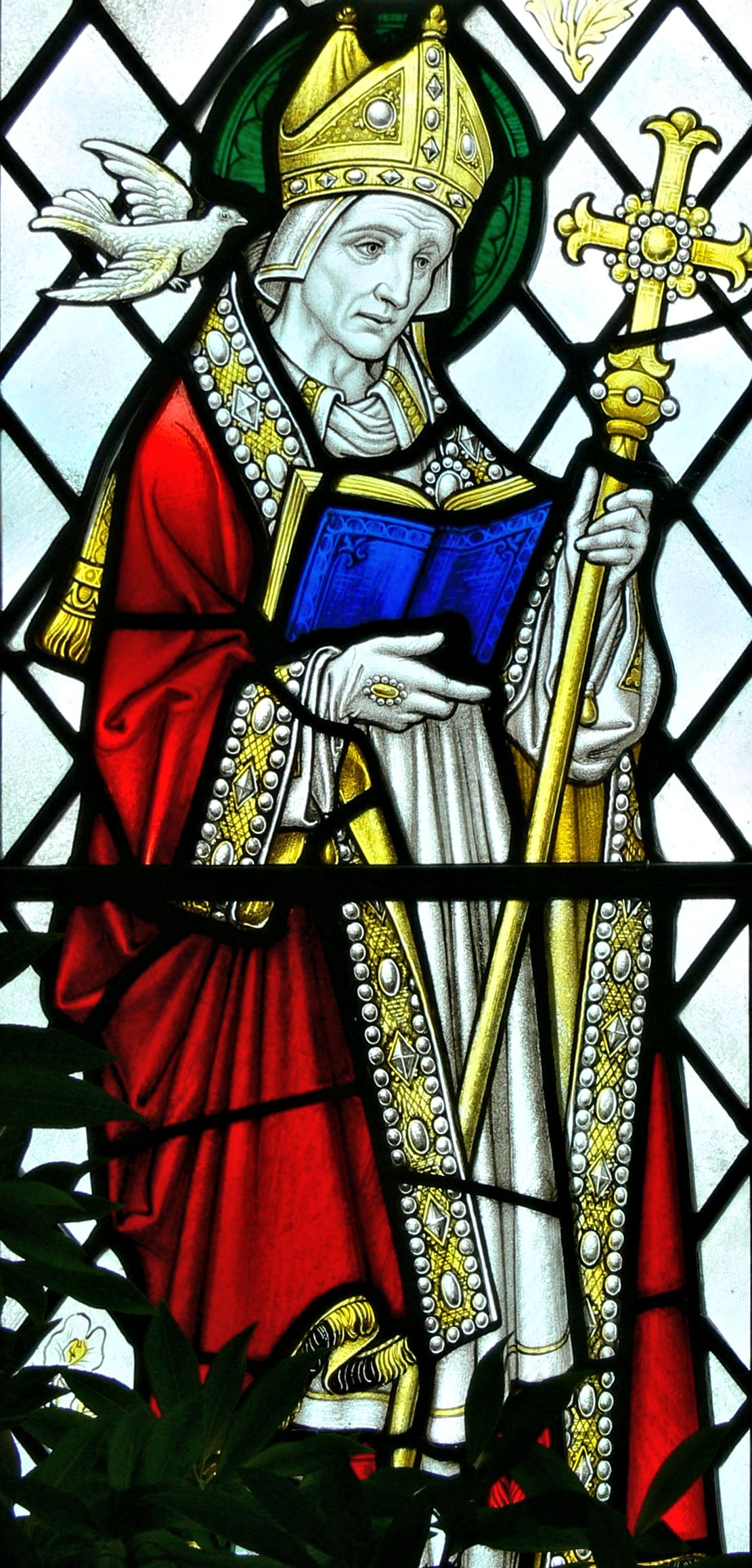 Our Lady and Saint Non's chapel ( St Davids, Wales ). Stained glass window ( 1934 ) showing Saint David.